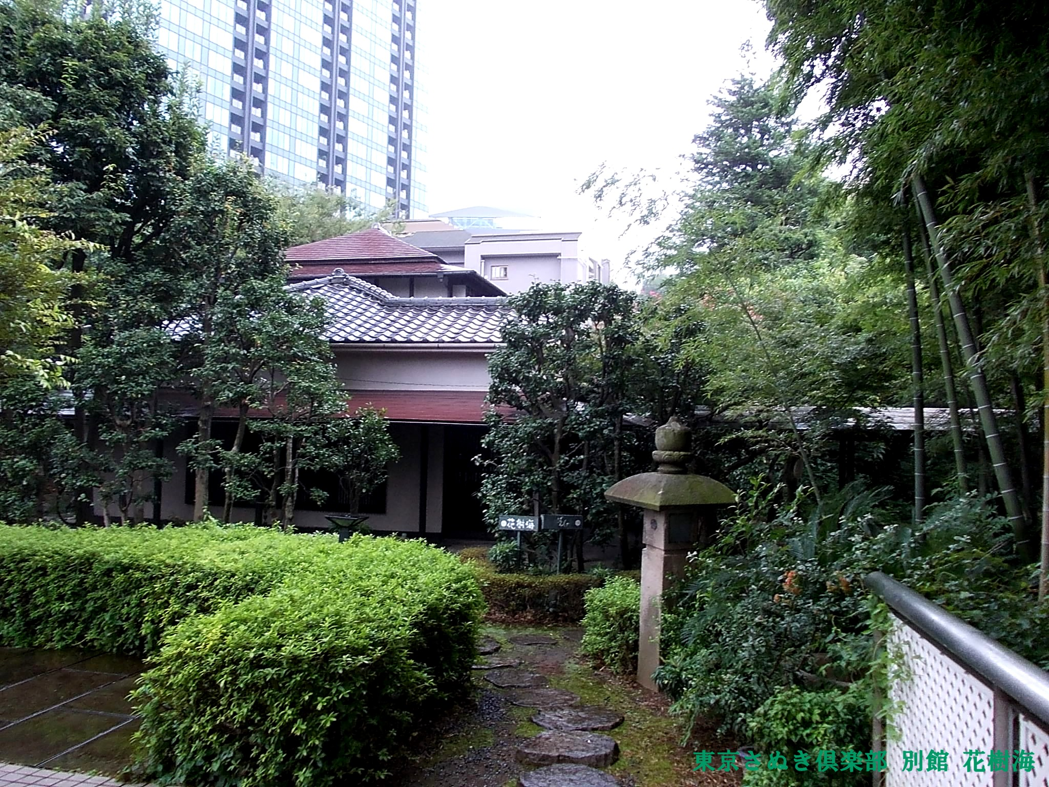 Tokyo Japan